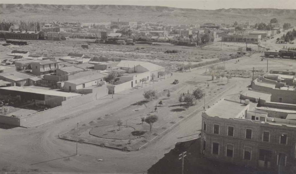 View of Neuquén City, Argentina